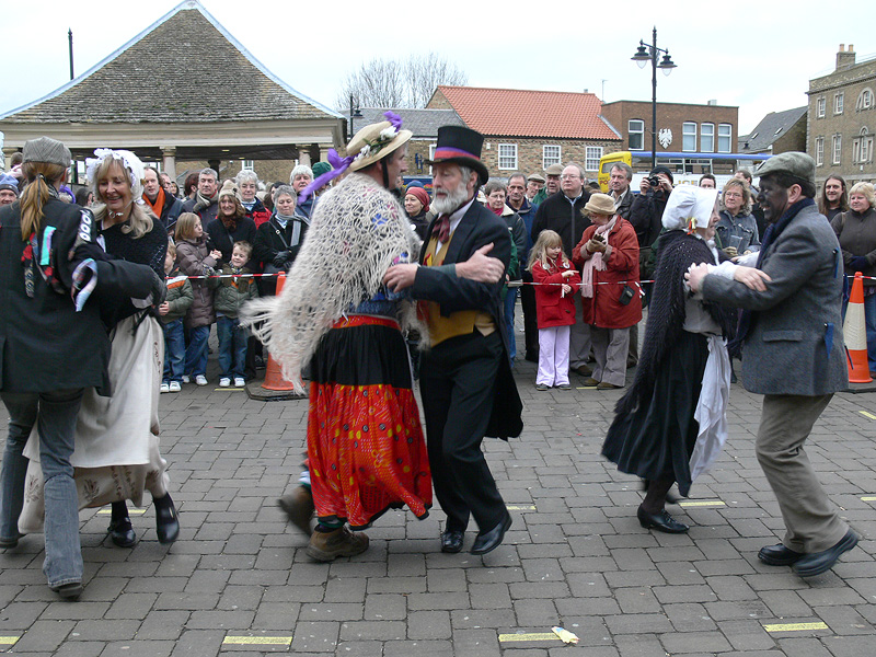 Molly dance side in action at Whittlesea Straw Bear Festival 2007 in Whittlesey, Cambridgeshire, UK.